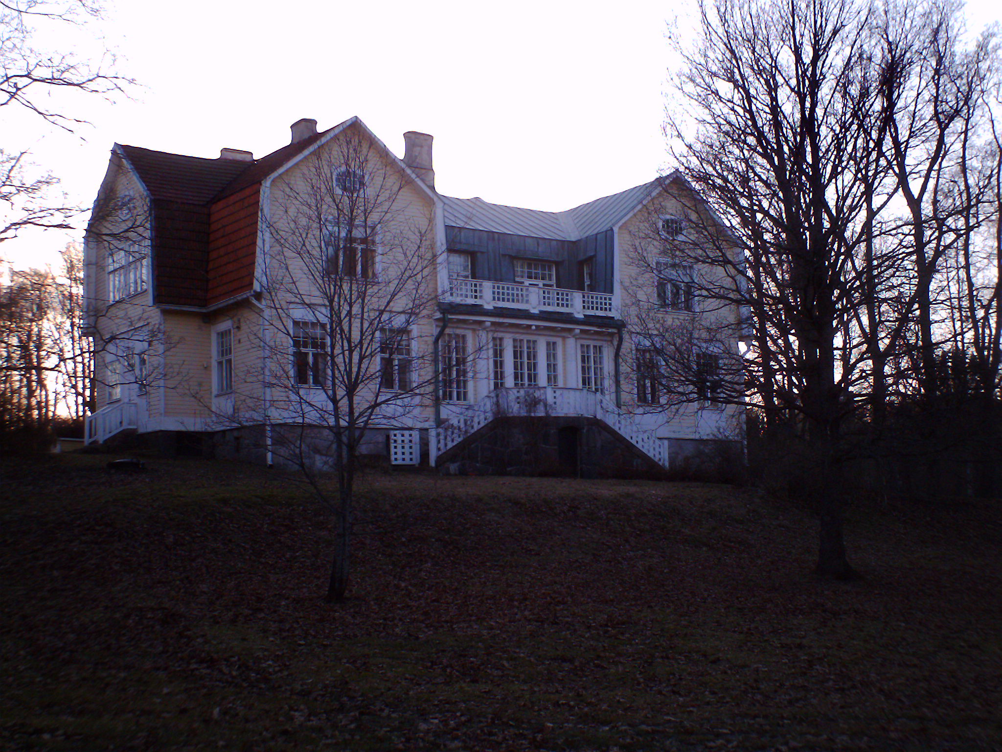 Hakunila Manor in Vantaa, Finland, was designed by architect Armas Lindgren, and completed in 1905.